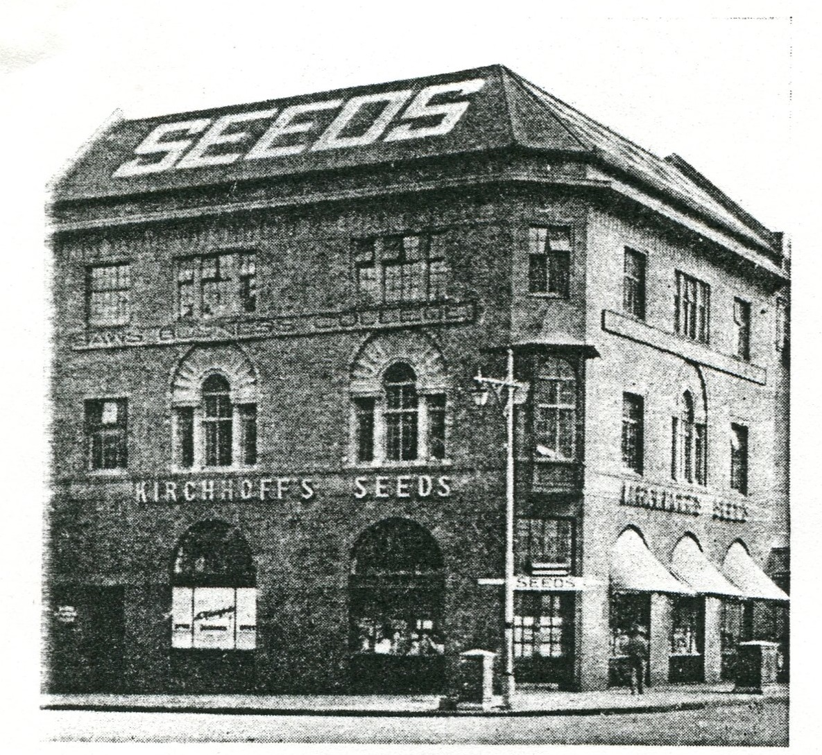 Kirchoff's building, cnr Jeppe and Loveday 001, it's a building in the city of Johannesburg. It is part of the works donated by the JHF to the Joburgpedia project.